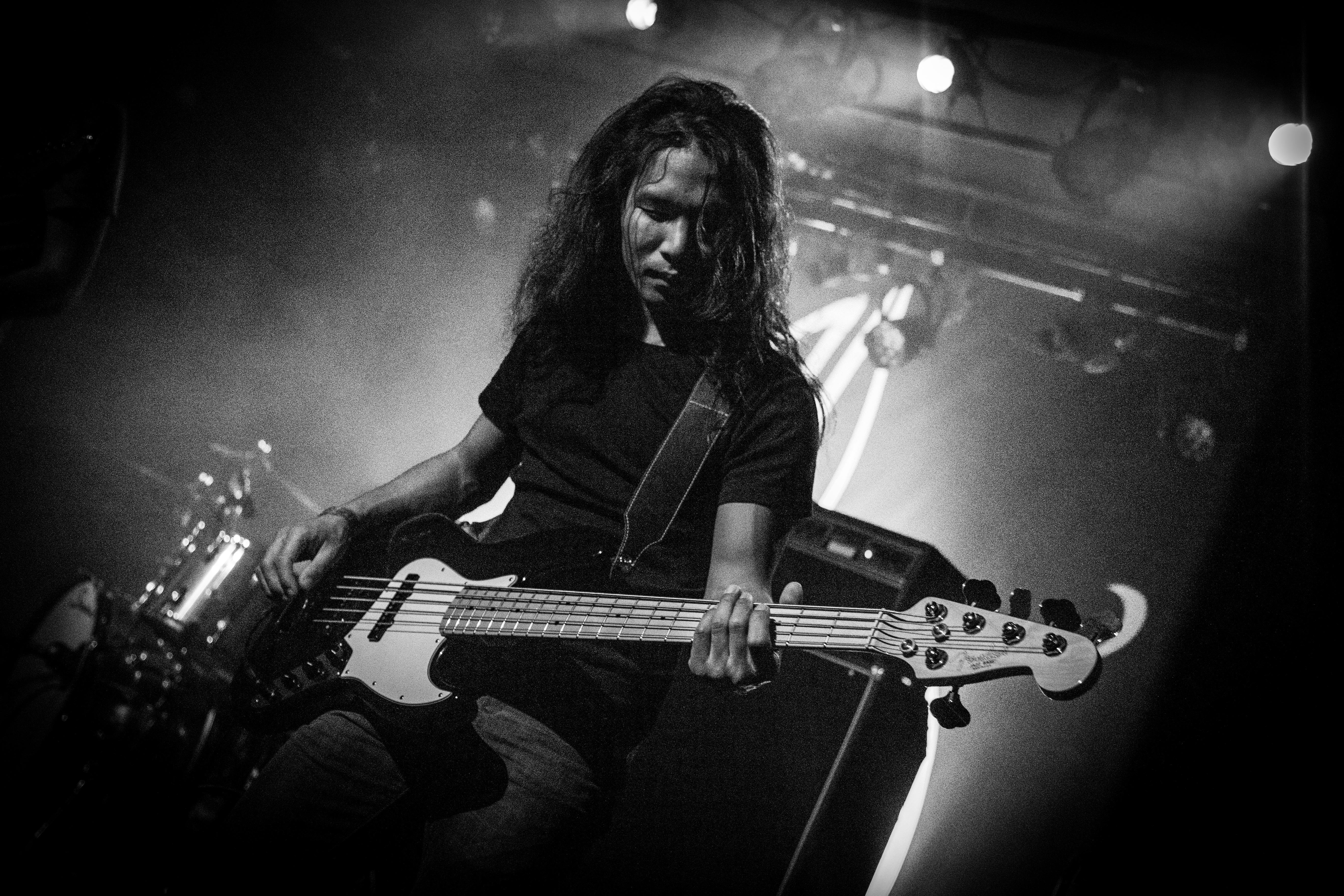 Alcest performing live at A Colossal Weekend 2017, Copenhagen, Denmark